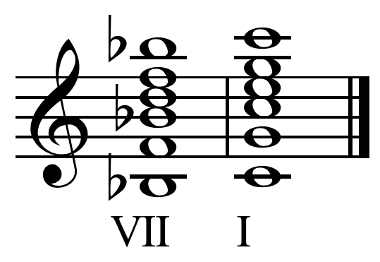 VII-I cadence in C major. Created by Hyacinth (talk) 14:28, 10 March 2011 (UTC) using Sibelius 5. GFDL-self